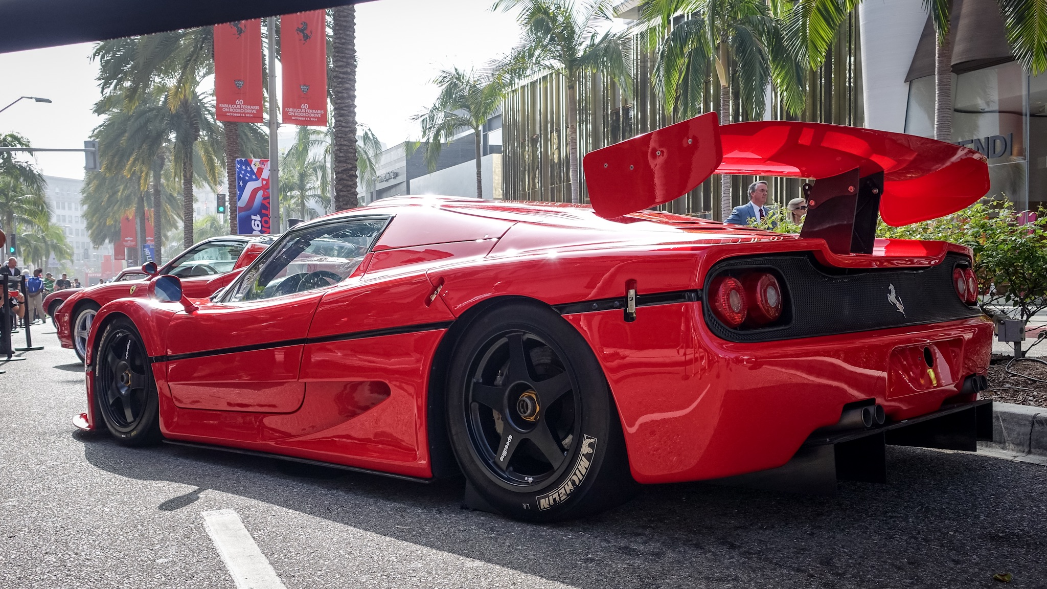 Ferrari introduced the F50 in 1995, then in 1996 decided to build a racing version for international GT racing. The F50 GT had a fixed roof, new front spoiler, and larger rear spoiler among other changes. This car, chassis 001, was the prototype used for testing, where it proved to be even faster than the 333 SP (an LeMans Prototype car). With GT rules changing, though, and Ferrari needing resources for Formula One, the F50 GT program was cancelled. This was the only car completed before the cancellation of the program.